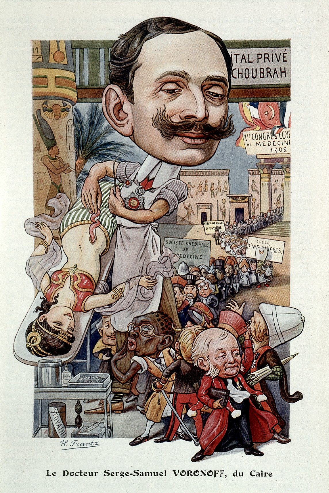 S. S. Voronoff performing an appendectomy (lit. binding of the middle-appendix in his hospital at Choubrah; at the same time, with the patient anaesthetised, a dance in honour of Congressistes (doctors of the Congress of Tropical Medicine in Cairo) is started. General Collections Keywords: Operation; Satire; Egypt